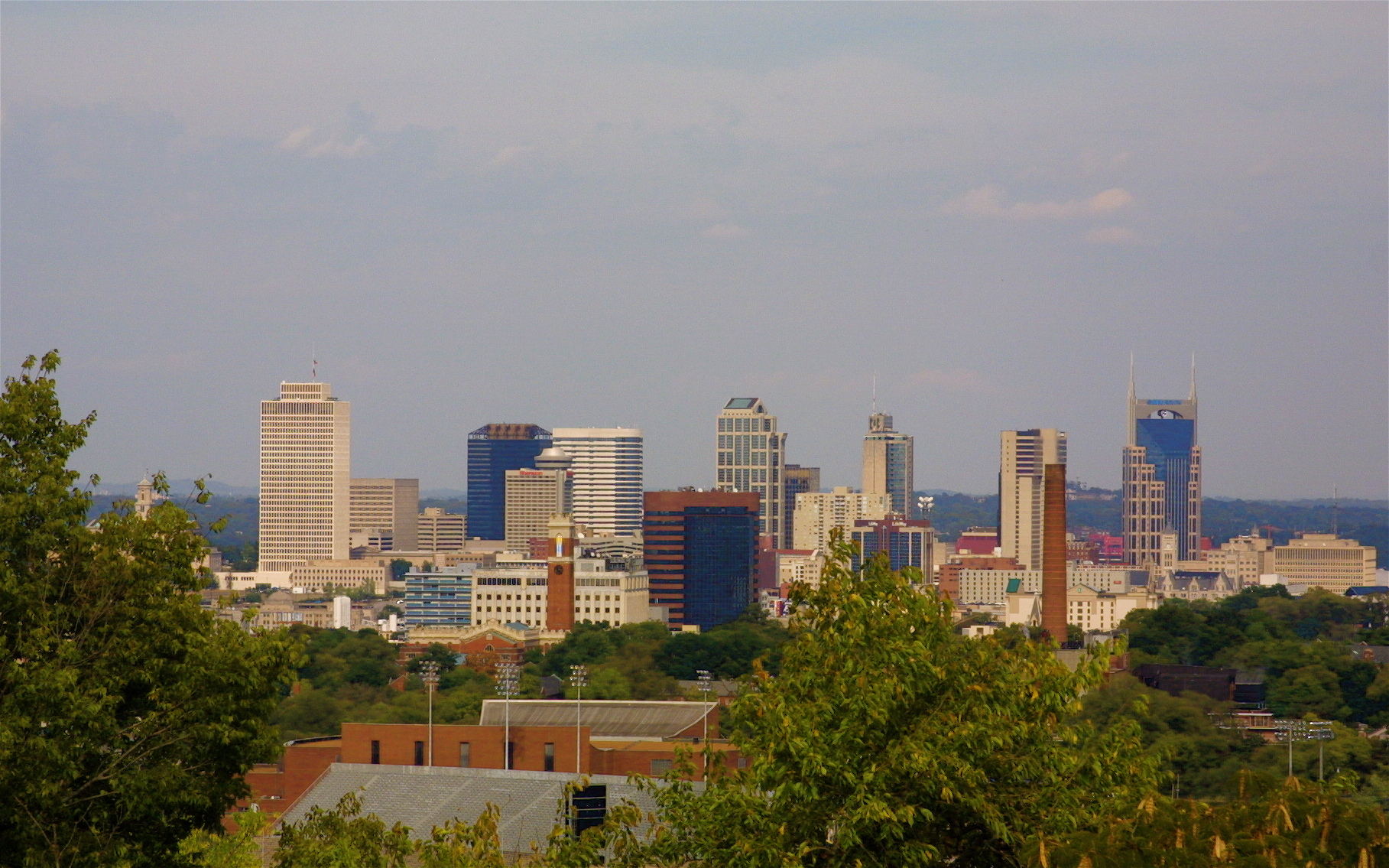 Skyline of Nashville, Tennessee. Parts of Vanderbilt University can be seen in the foreground.